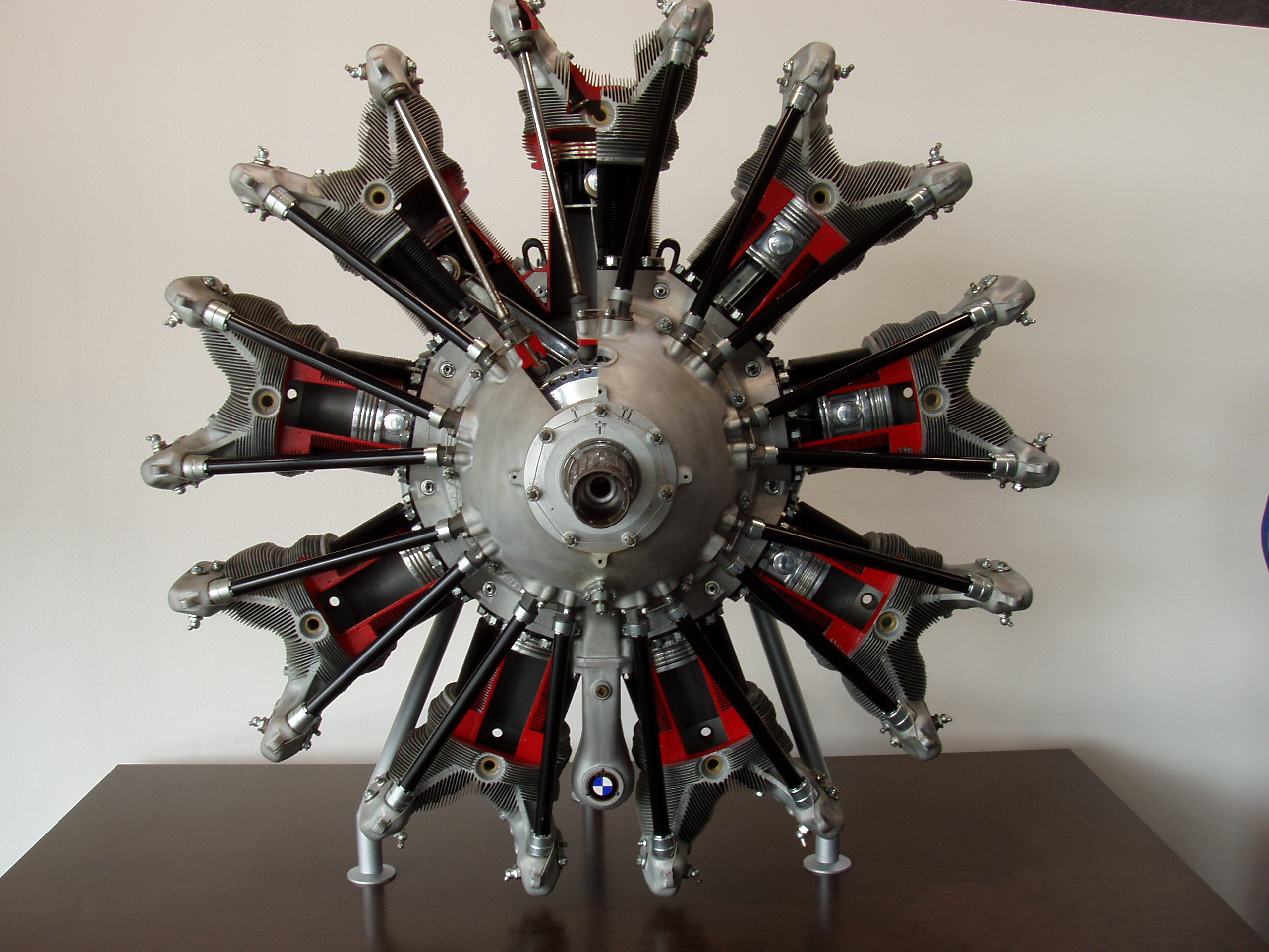 BMW engine of a Junkers Ju 52 in the BMW museum in Munich.